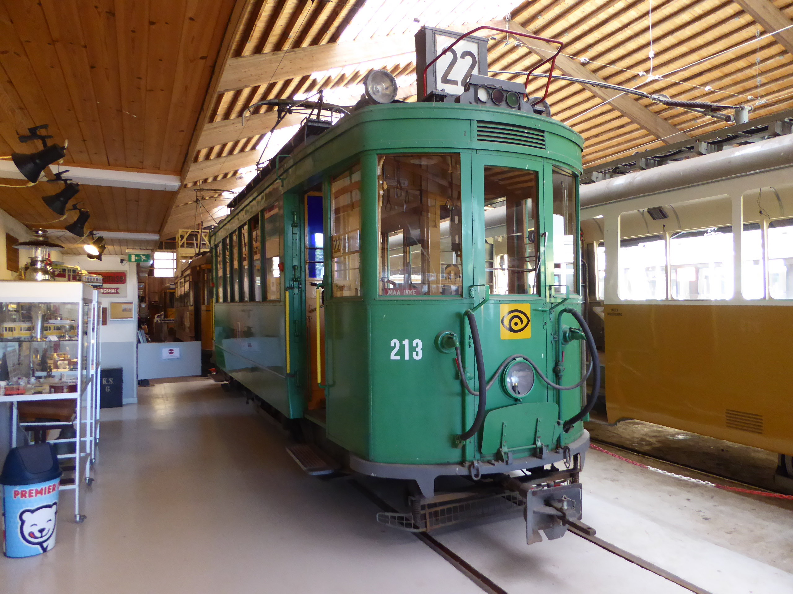 Old tram of Basel, BVB 213 from 1933, in Remise 1 at Sporvejsmuseet Skjoldenæsholm in Denmark.